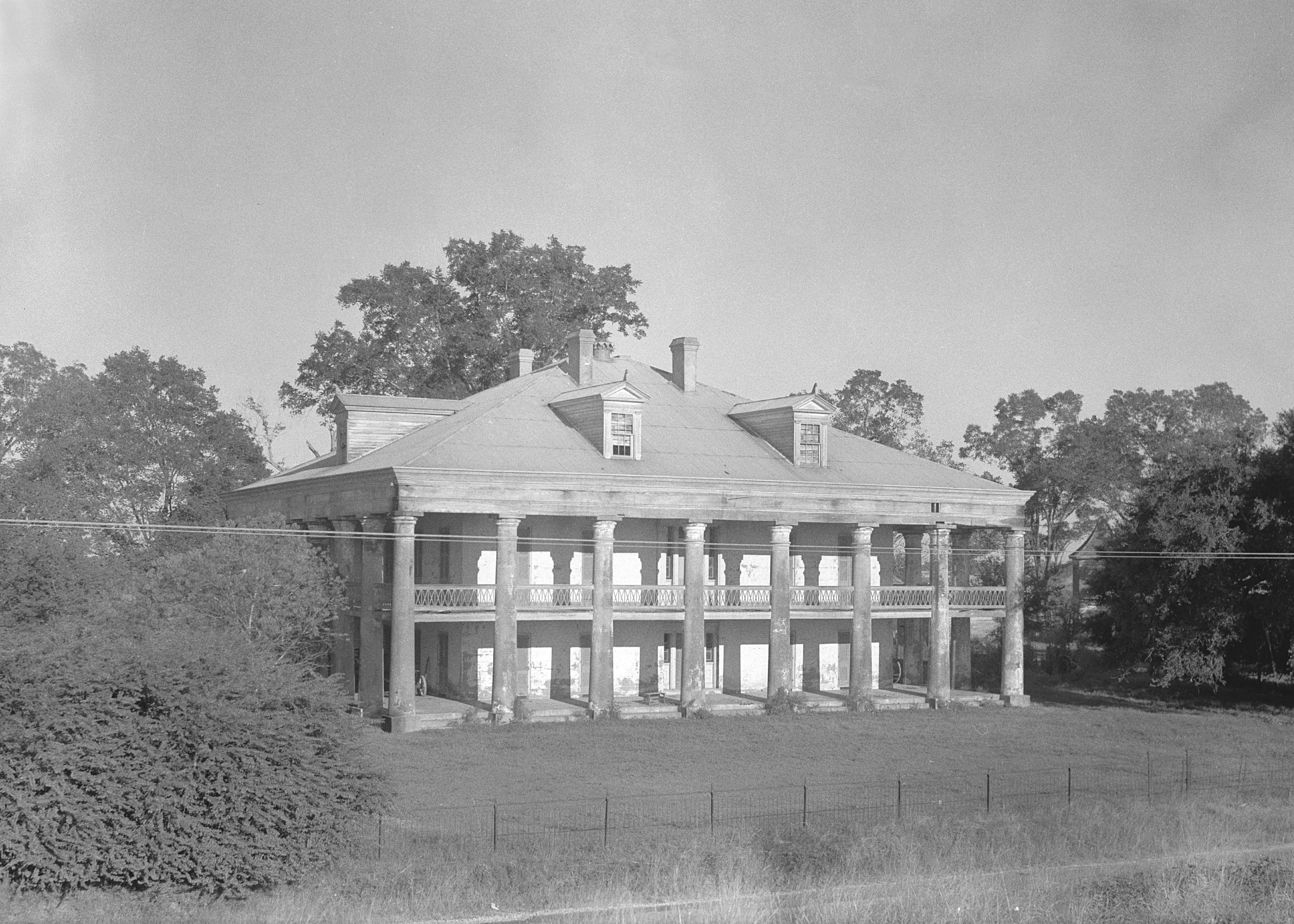 Uncle Sam Plantation, Convent vicinity, St. James Parish, LA. MAIN HOUSE, WEST ELEVATION (FRONT).